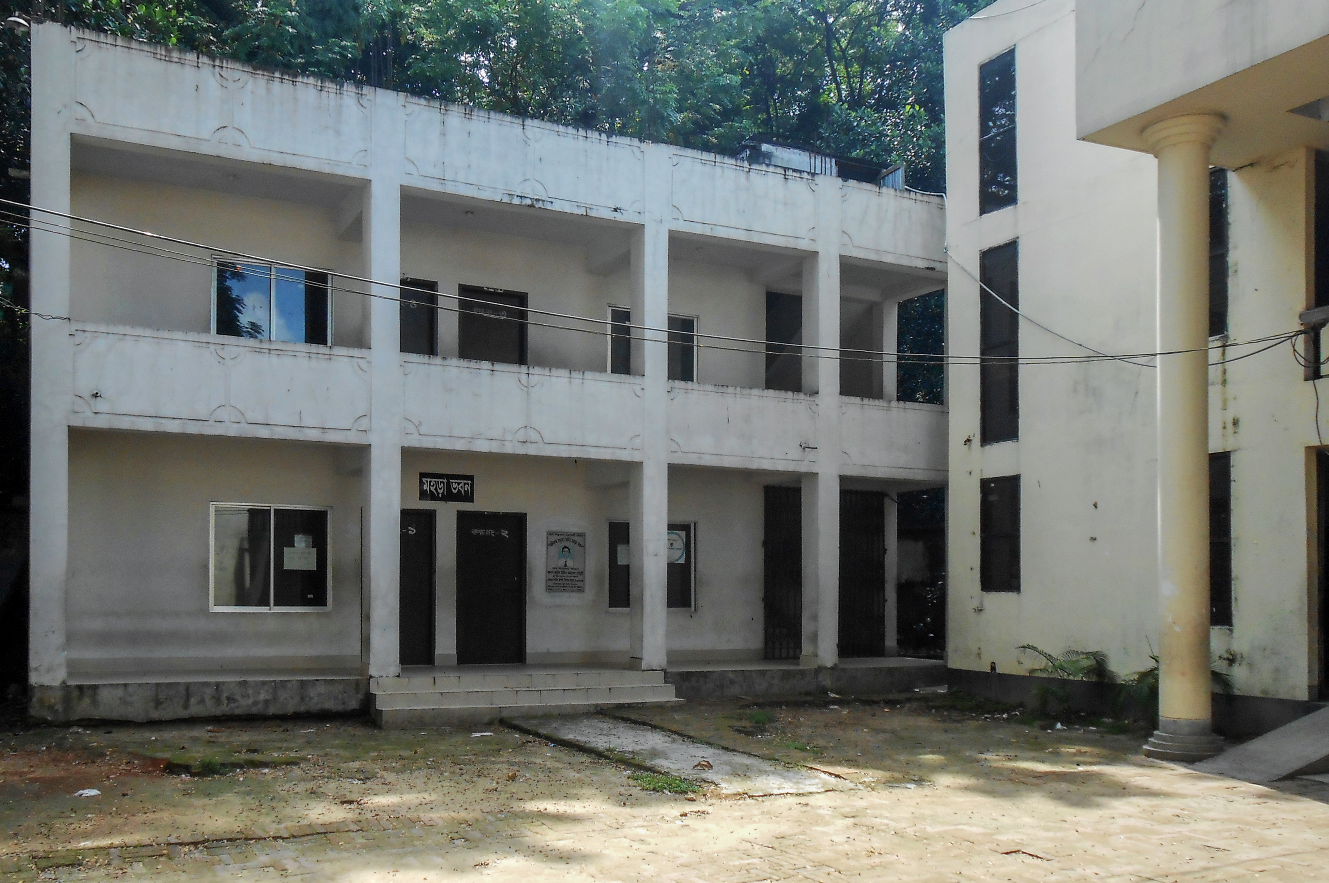 Mahara Bhaban (Reharsel building), Zilla Shilpakala Academy, Chittagong. west-east axis